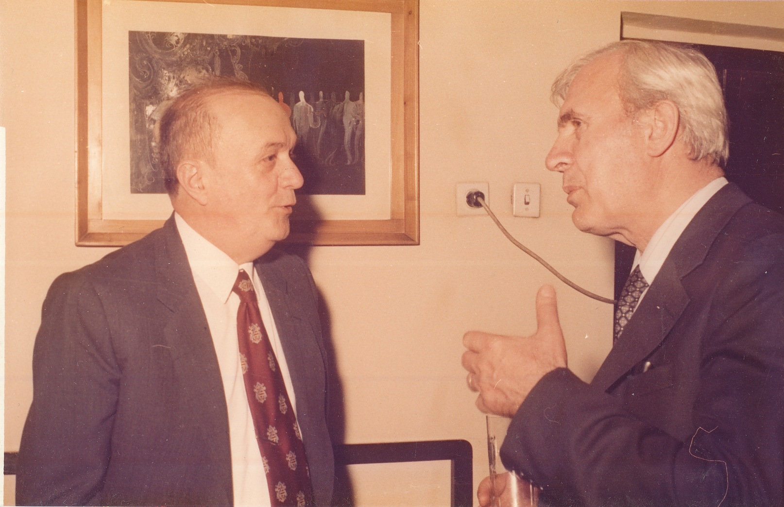 Romanian writers Ion Brad and Titus Popovici